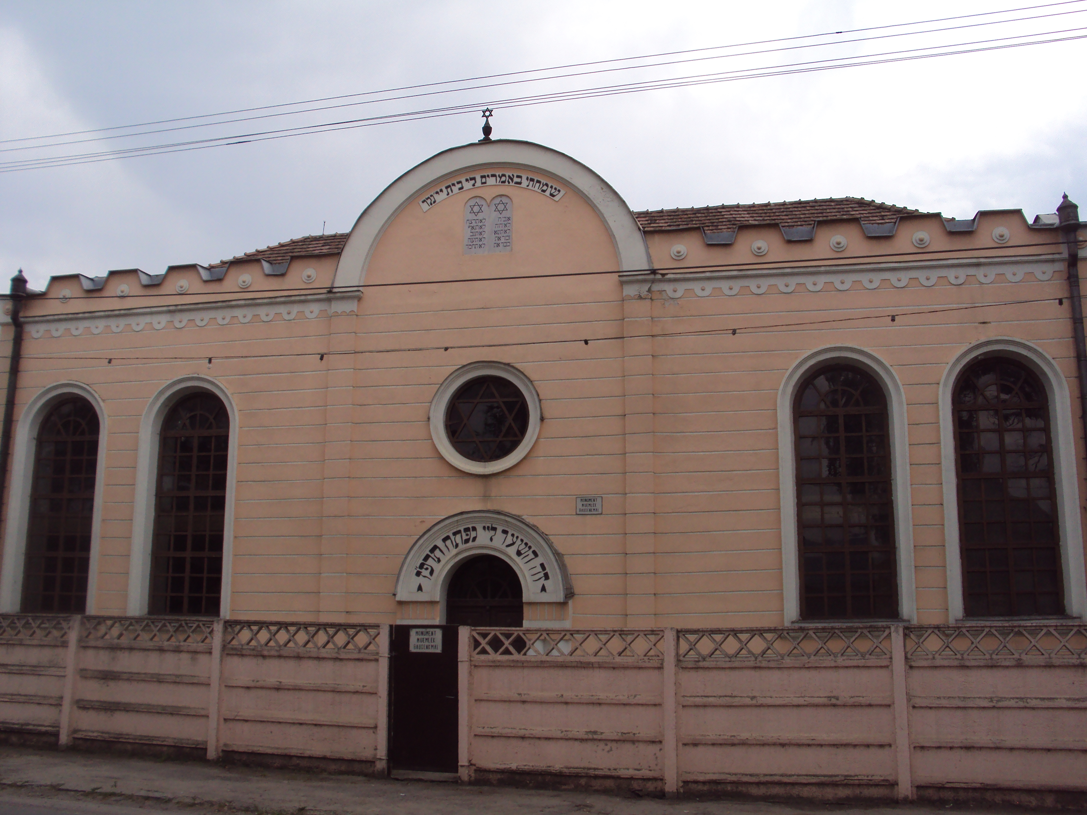 The Orthodox synagogue in Gheorgheni, Harghita County, Romania.